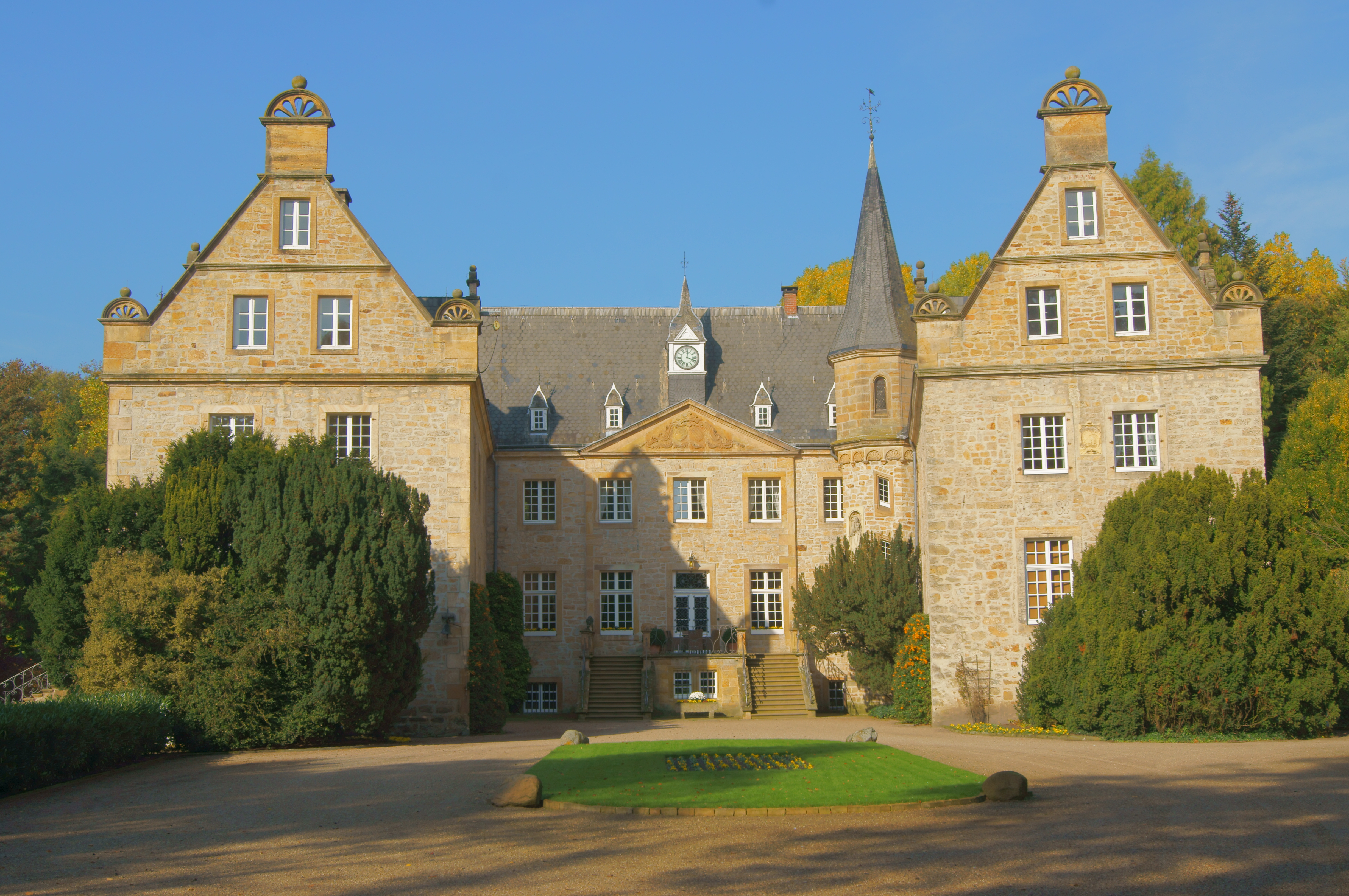 Surenburg in Riesenbeck, Hörstel, North Rhine-Westphalia, Germany This is a photograph of an architectural monument.